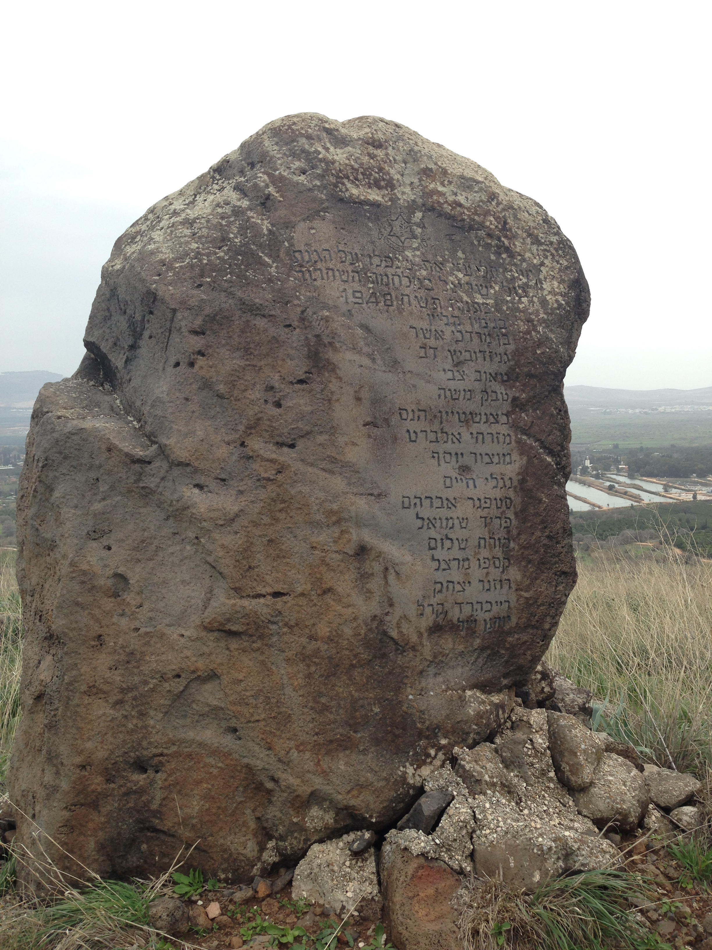 Memorial for 1948 victims of Tel Azaziat, Golan hights slopes, Israel.